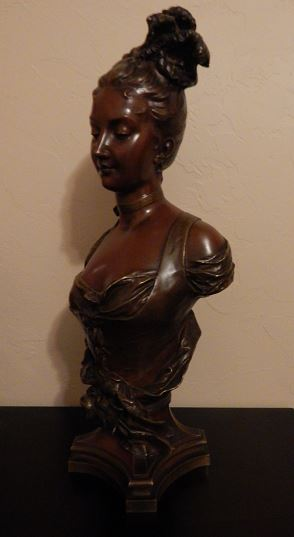 A bronze bust of a woman attributed to Adrien Etienne Gaudez, c. 1880, unknown location.